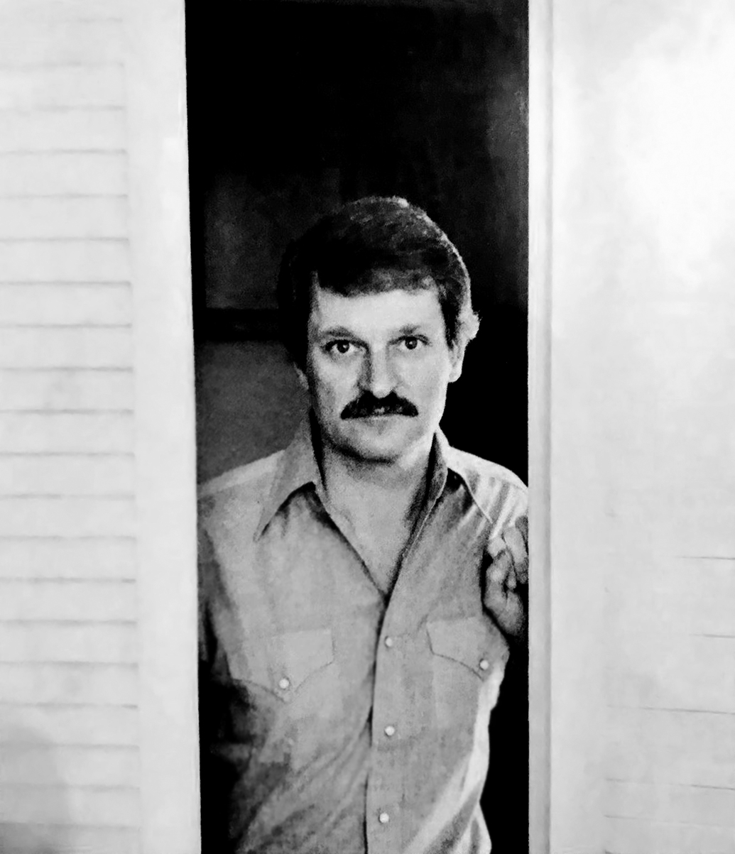 Photo portrait of the American poet John Ashbery.